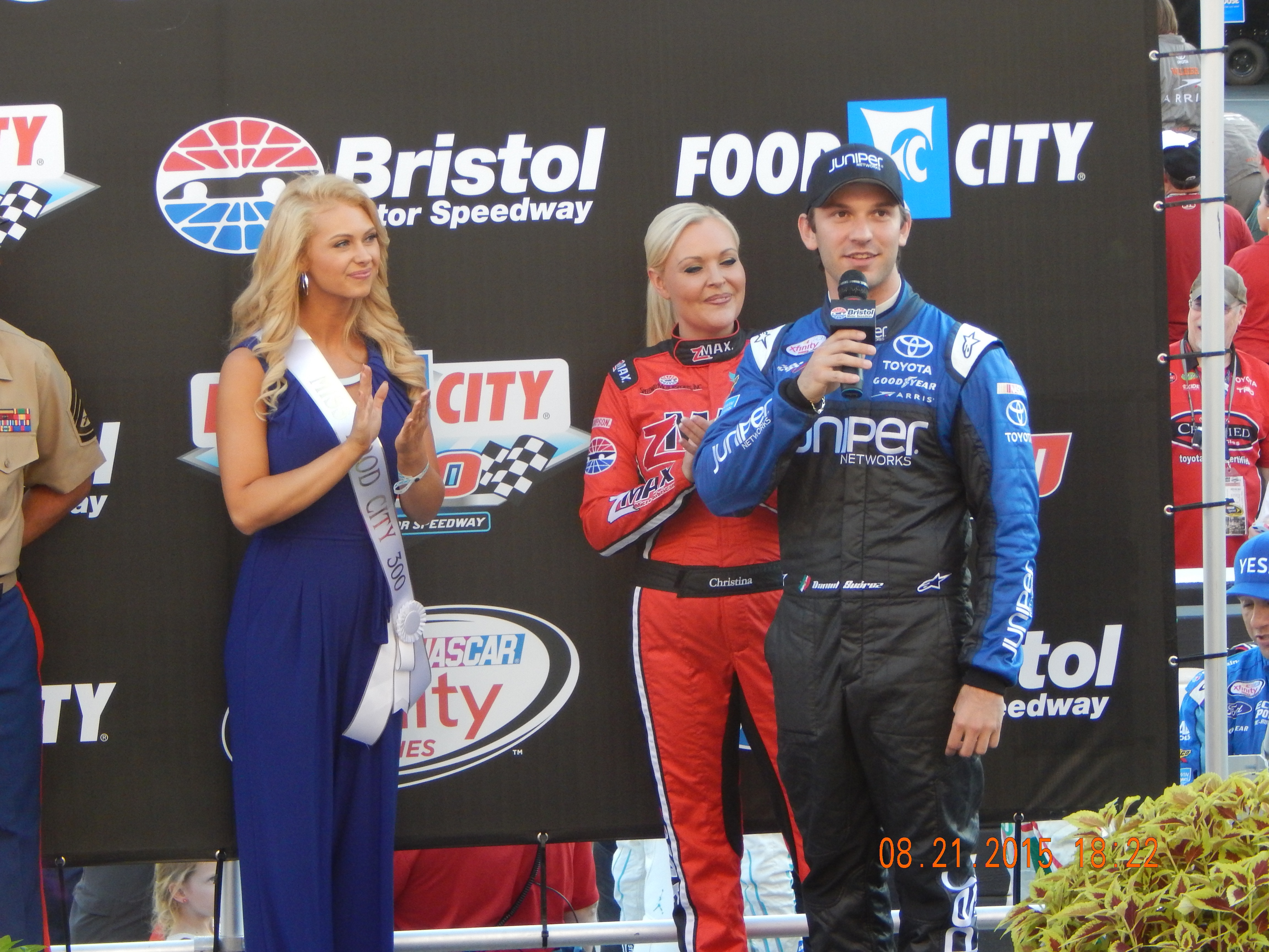 Daniel Suárez being introduced at Bristol Motor Speedway for the 2015 Food City 300.